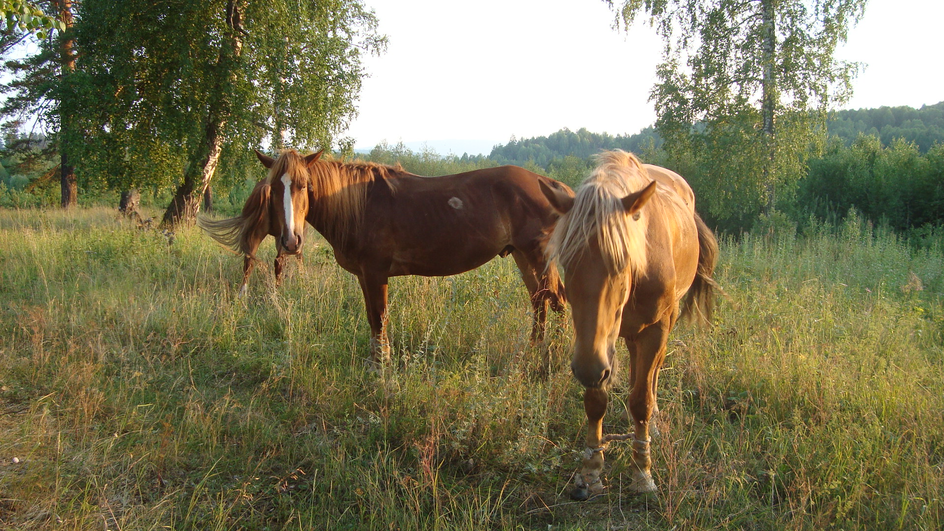 Bashkir horses in Southern Urals